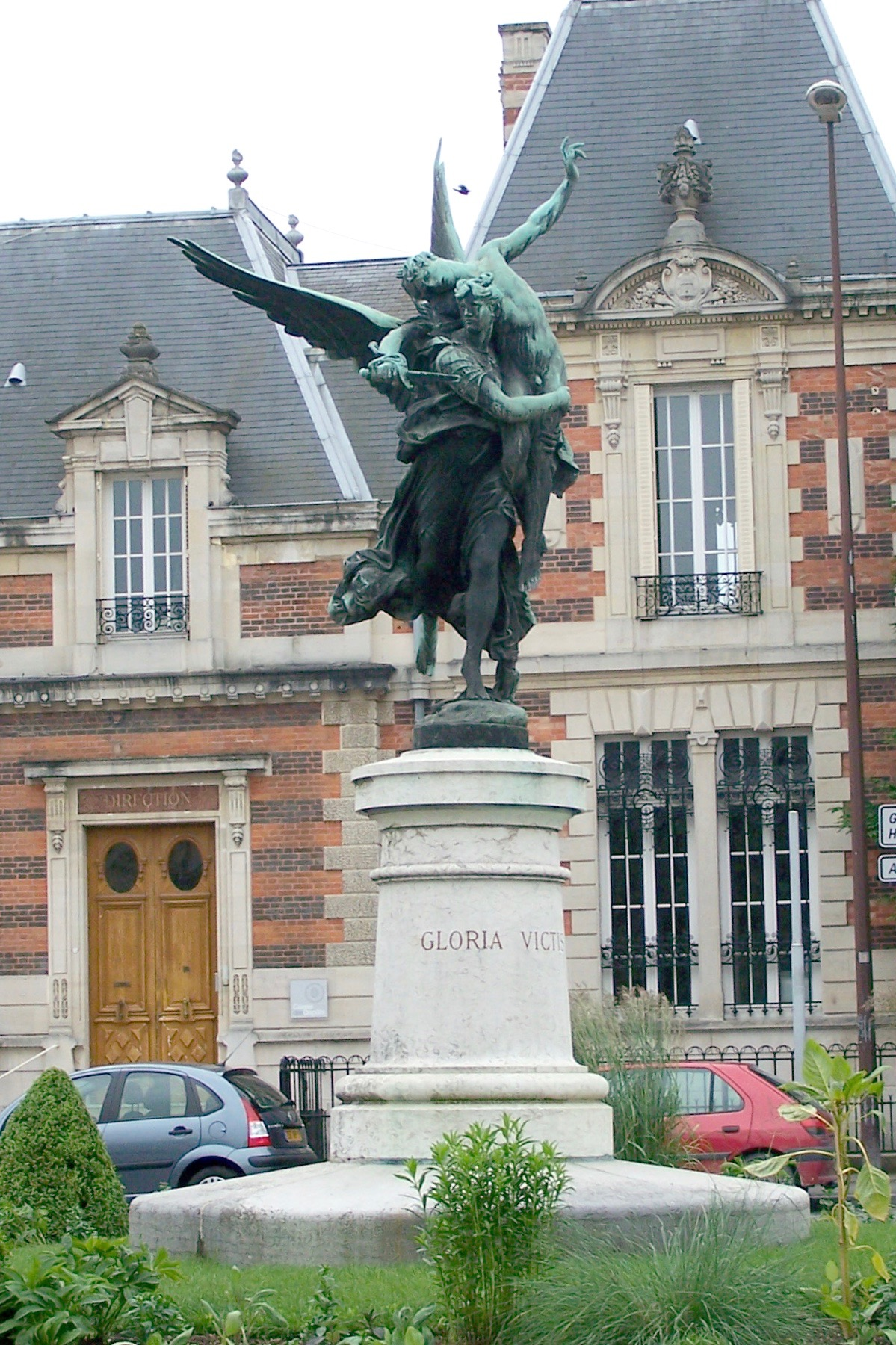 Sculpture "Gloria Victis", designed by Antonin Mercié. Placed at the roundabound between Boulevard Victor Hugo and Boulevard Aristide Briand in Châlons-en-Champagne in 1890. A gift by Don de Joseph Chevalier and made at Thiébaut Frères Fondeurs.